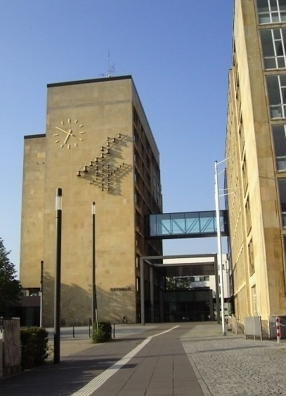 Guetersloh town hall (town council)